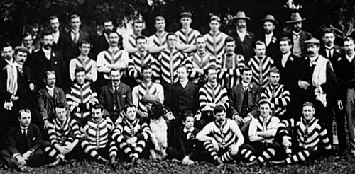 Team photo of the 1902 North Adelaide SAFA premiers. 1902 Rear, L to R : R. Baker, C. Inwood, C. Rosser, W. Dillon, W. Dawkins, J. Earl, H. Ward, J. Rees, G. Bickle, G. Kreusler, H. Sanders. Second row, L to R : S. Sharp, R. Burton (trainer), J. Burke, A. Ewers, N. Claxton, T. Bradley, P. Sandland, F. Dickenson, G. Carter, N. Clark, H. Gurr, J. Lewis (trainer), J. Clements, T. Hodge. Third row, L to R : R. Wheeler (V.P.), N. Lemon, C. H. Nitschke (Patron), J. Reedman, H. Dixson M.P.(President), J. Matthews (Vice-Captain), B. G. Lamprell (Hon. Secretary), O. Buttrose.Front row, L to R : F. Ewers, N. Pash, H. Pash, E. Johns, "Bruce", W. Checkett, A. Daly, C. Jessop, C. Fotheringham.